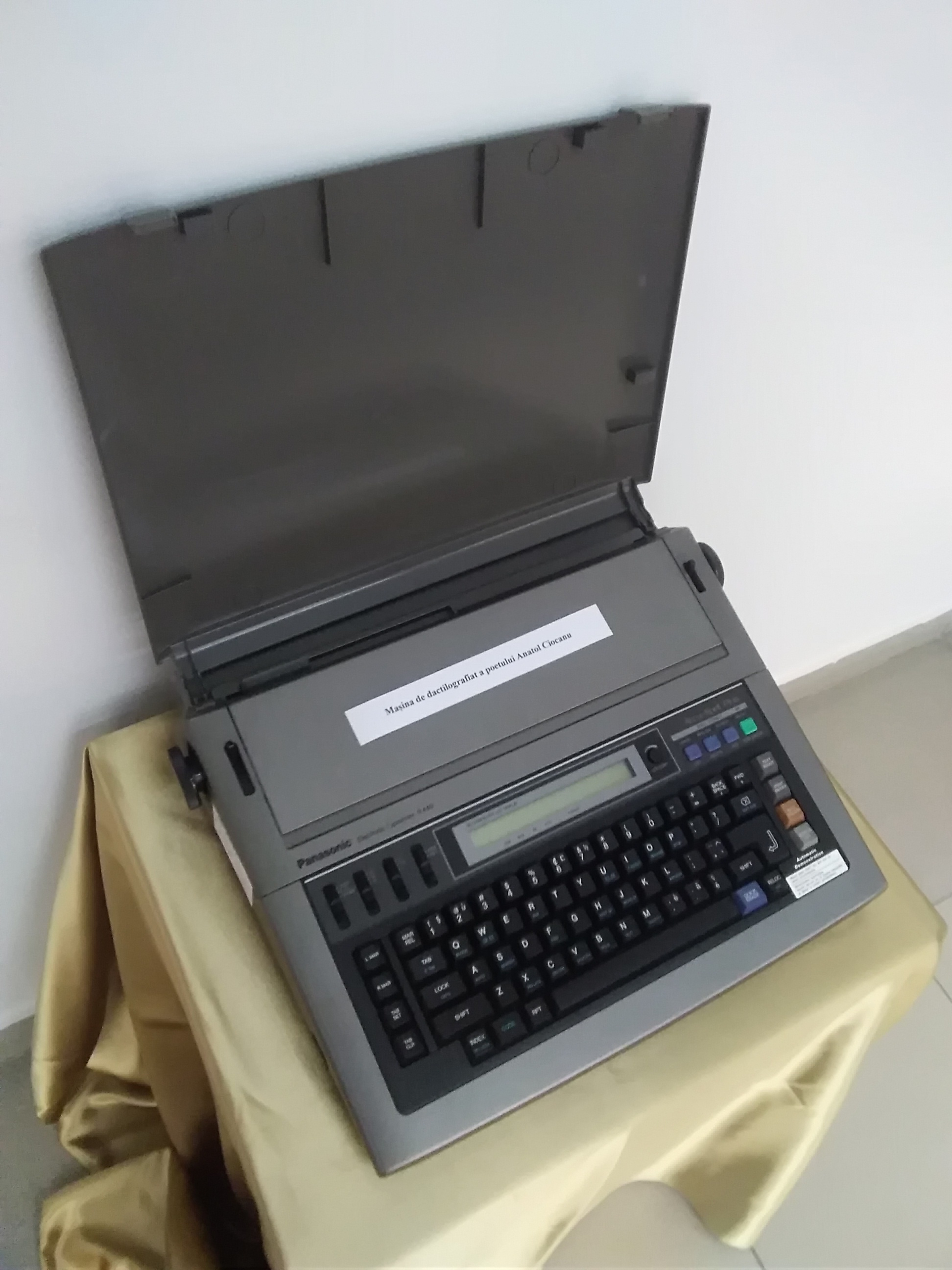 Typewriter of Moldovan writer Anatol Ciocanu, exhibited at the National Library of Moldova